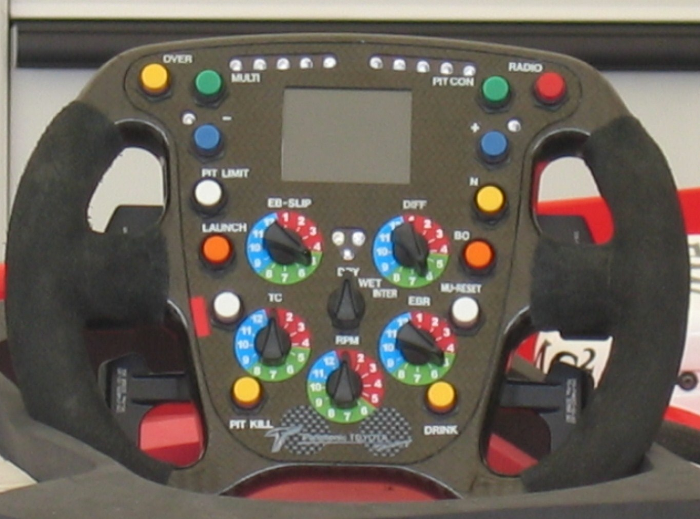 Cropped version of Original flickr photo showing Toyota F1 steering wheel as shown at Goodwood Festival of Speed 2008.